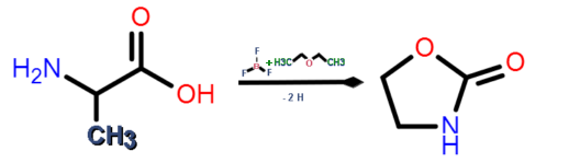 2-oxazolidinone synthesis from alanine